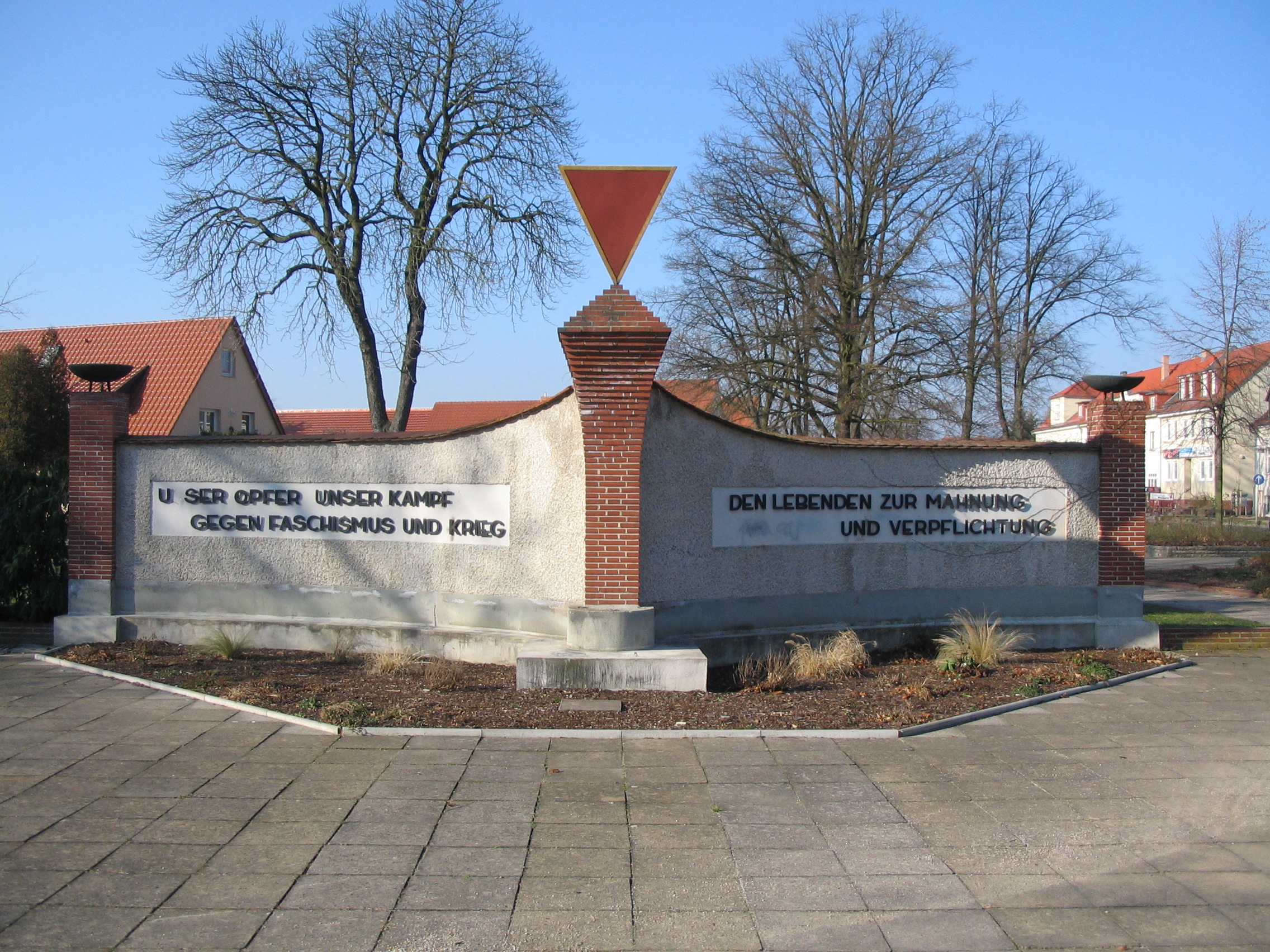 Memorial in Falkensee. Translated inscription: "Our sacrifice, our struggle against fascism and war – the living for appeal and engagement"